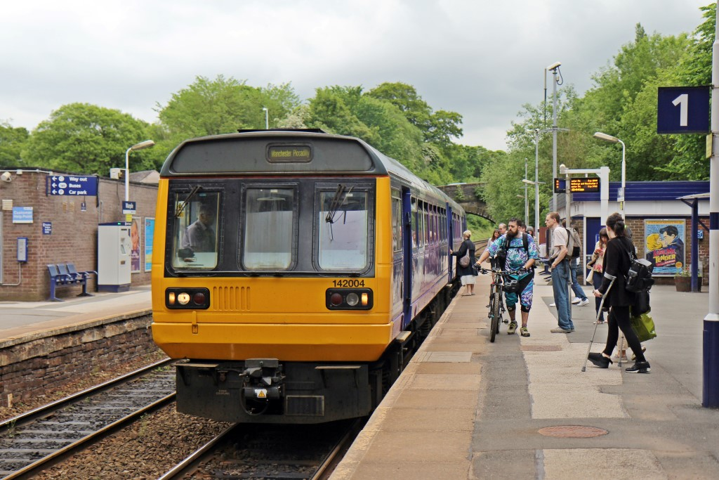 Northern Rail Class 142, 142004, Marple railway station